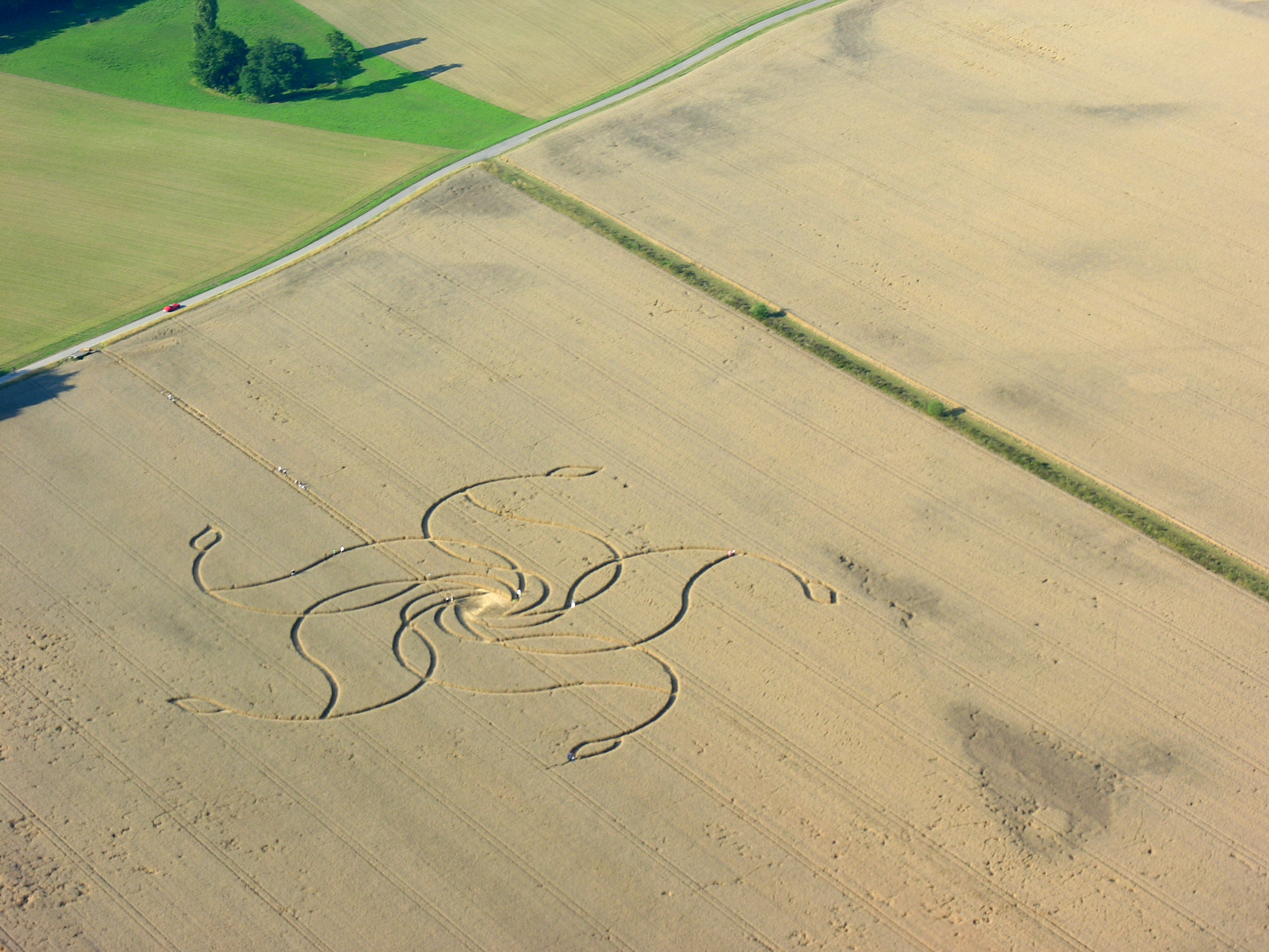 Aerial View of the Crop Circle in Diessenhofen